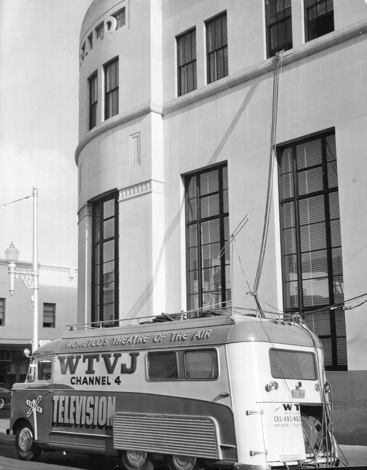 Photo of the Wometco-owned WTVJ-TV mobile truck in 1950.